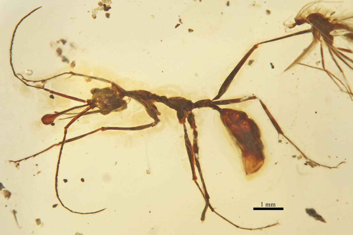 Profile view of the Ceratomyrmex ellenbergeri worker. Holotype specimen NIGP164022, Nanjing Institute of Geology and Palaeontology, Chinese Academy of Sciences, Nanjing, China Burmese amber, Earliest Cenomanian; Kachin State, Myanmar